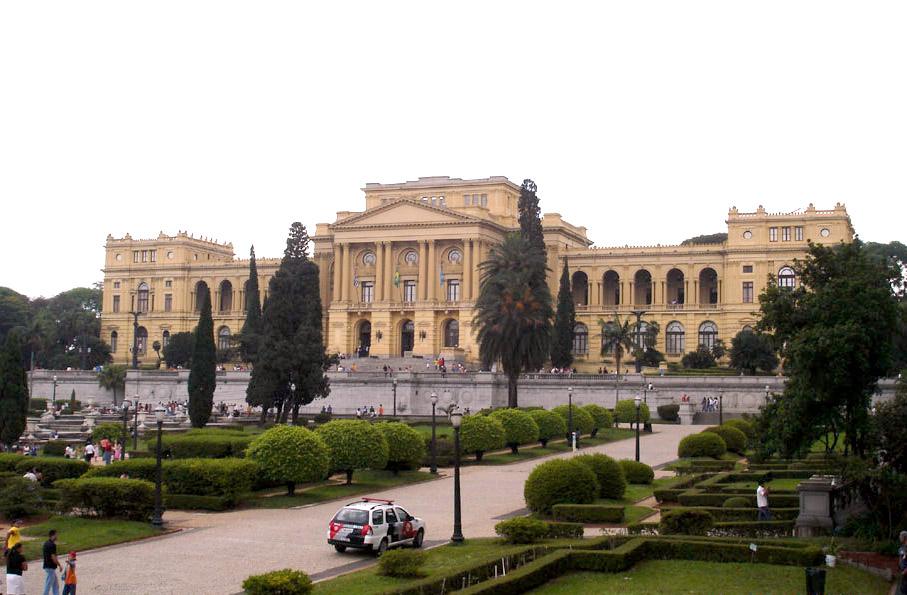 Ipiranga Museum in São Paulo, Brazil